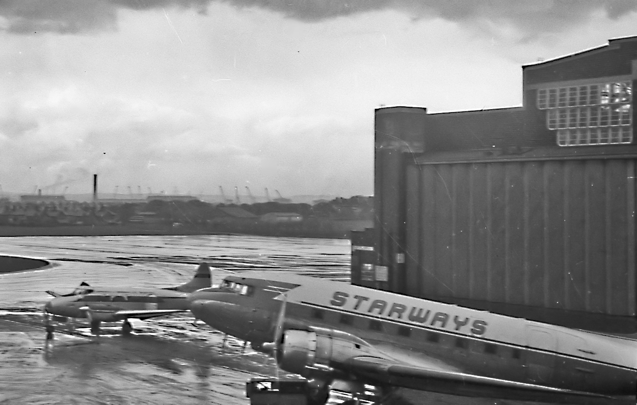 Dove and DC3, Liverpool, 1960